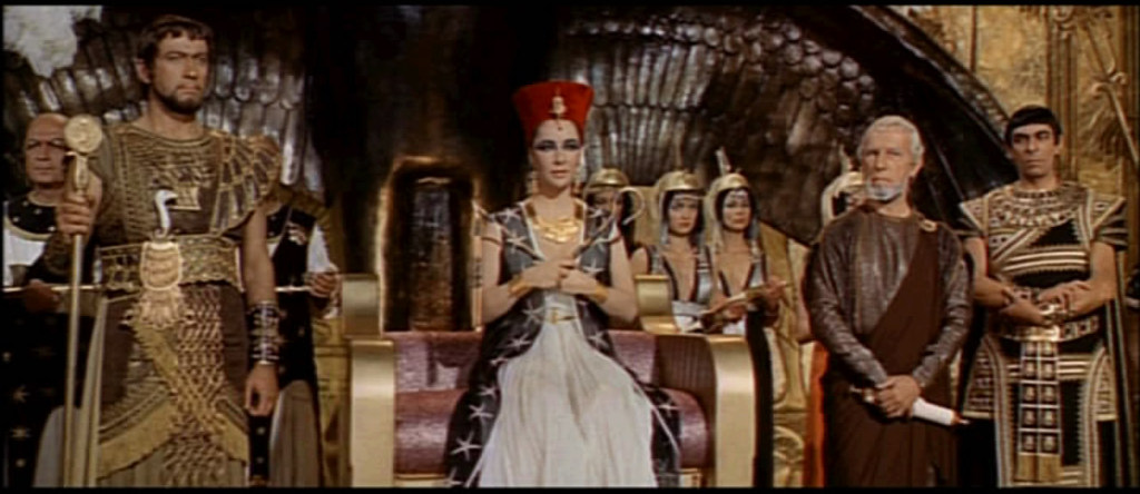 Screenshot of Elizabeth Taylor from the trailer for the film Cleopatra. Actor Hume Cronyn is second from the right.